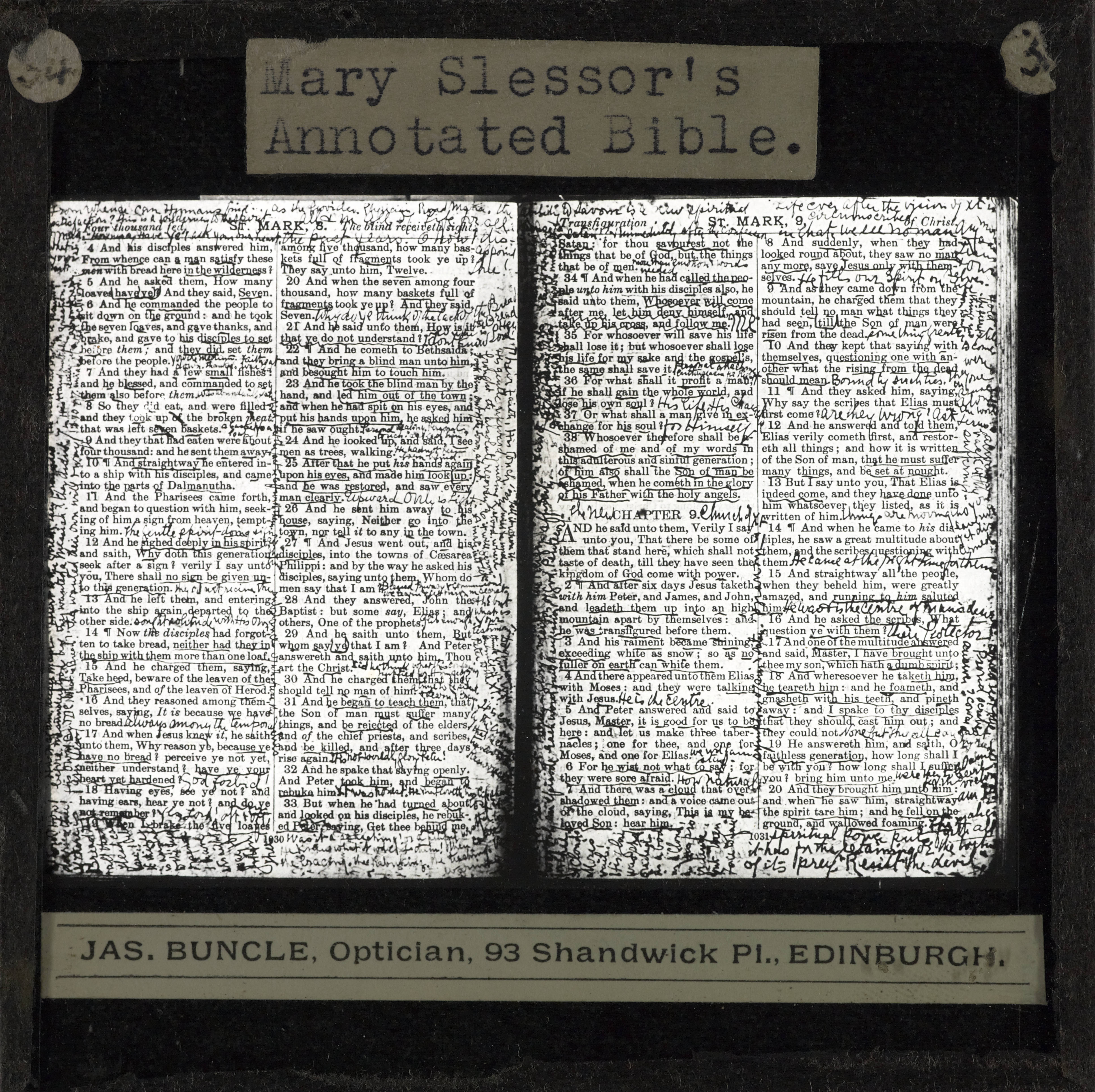 Mary Slessor's Annotated Bible Image of an open page of Mary Slessor's Bible. Both pages are heavily annotated.; Mary Slessor, the Scottish Missionary, lived in Okoyong (located in later day Nigeria) for many years. Here she held bible readings usually at 5.30am. Her bibles were very heavily annotated. One remark is noted to read "This happens in Okoyong every day". Photographer: Unknown Subject (personal name): Slessor, Mary Mitchell, 1848-1915 Filename: imp-cswc-GB-237-CSWC47-LS2-034.tif Coverage date: before 1915 Part of collection: International Mission Photography Archive, ca.1860-ca.1960 Type: images; texts Part of subcollection: Photographs from the Centre for the Study of World Christianity, University of Edinburgh, U.K., ca.1900-ca.1940s Repository name: Centre for the Study of World Christianity Archival file: impaunpub_Volume7/1308.url Geographic subject (city or populated place): Nigeria Repository address: The University of Edinburgh School of Divinity, New College, Mound Place, Edinburgh EH1 2LX, United Kingdom Format (aacr2): 1 lantern slide : 8 x 8 cm. Geographic subject (continent): Africa Rights: Contact the repository for details. Part of series: Mary Slessor LS2 Repository Subject (lcsh Keyword): Religious education; Religion Date created: circa 1880 Publisher (of the digital version): University of Southern California. Libraries Subject (aat genre): close up views Format (aat): lantern slides Legacy record ID: impa-m68178 Access conditions: File: GB 237 CSWC47/LS2/34